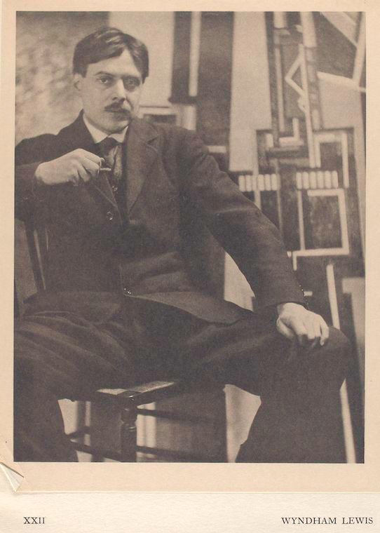 British author Wyndham Lewis in London, February 25, 1916